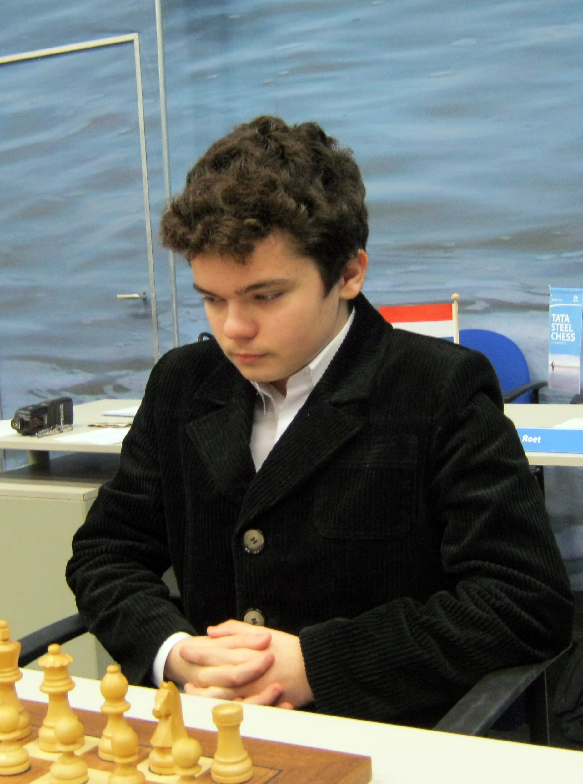 Illya Nyzhnyk, chess grandmaster from Ukraine